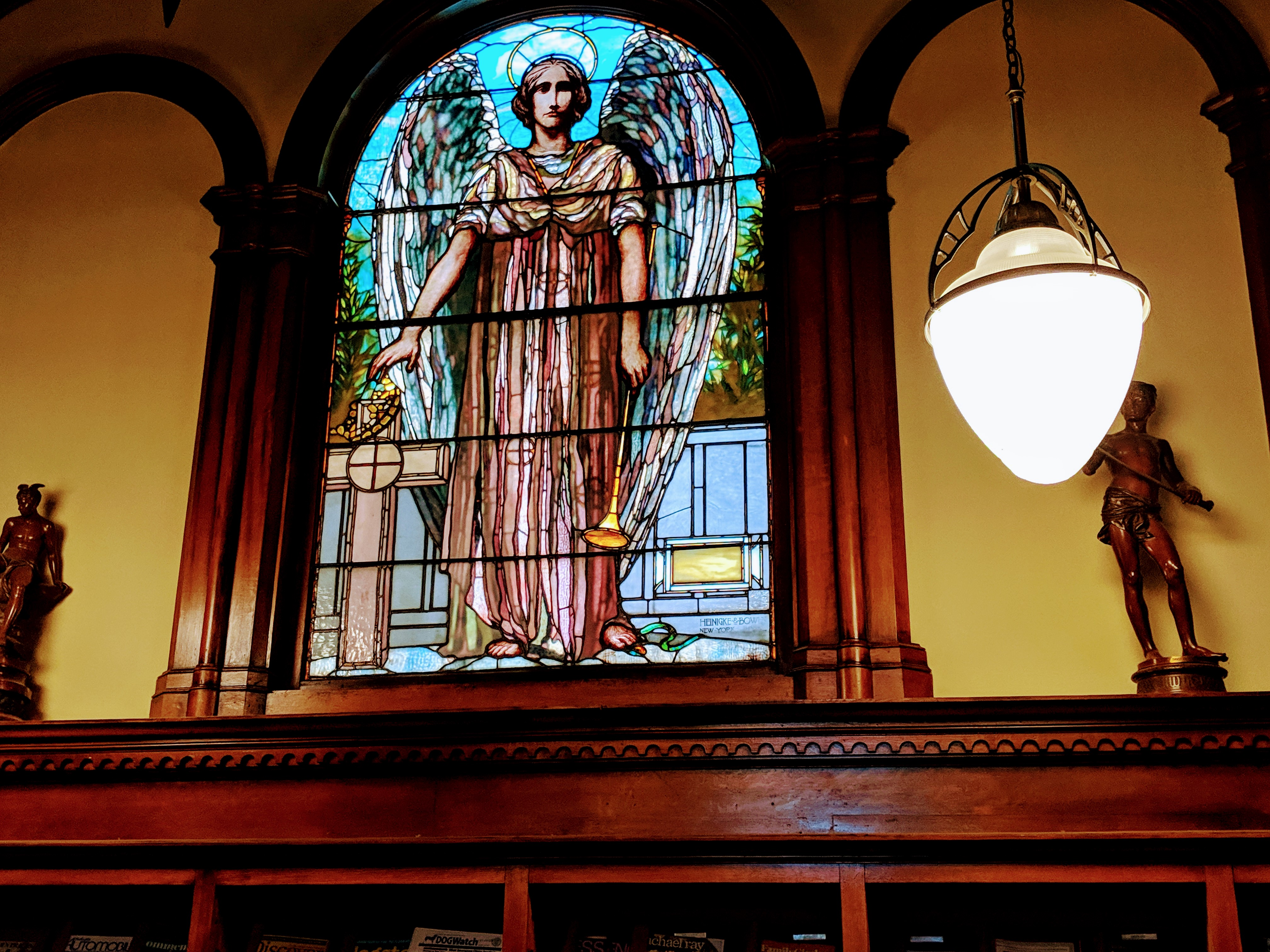 1892 Archangel Michael lead glass window by Bowen/Heinigke in the ESClarke Library reading room